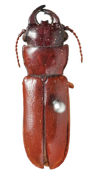 Birandra (Yvesandra) latreillei, lectotype (major male).